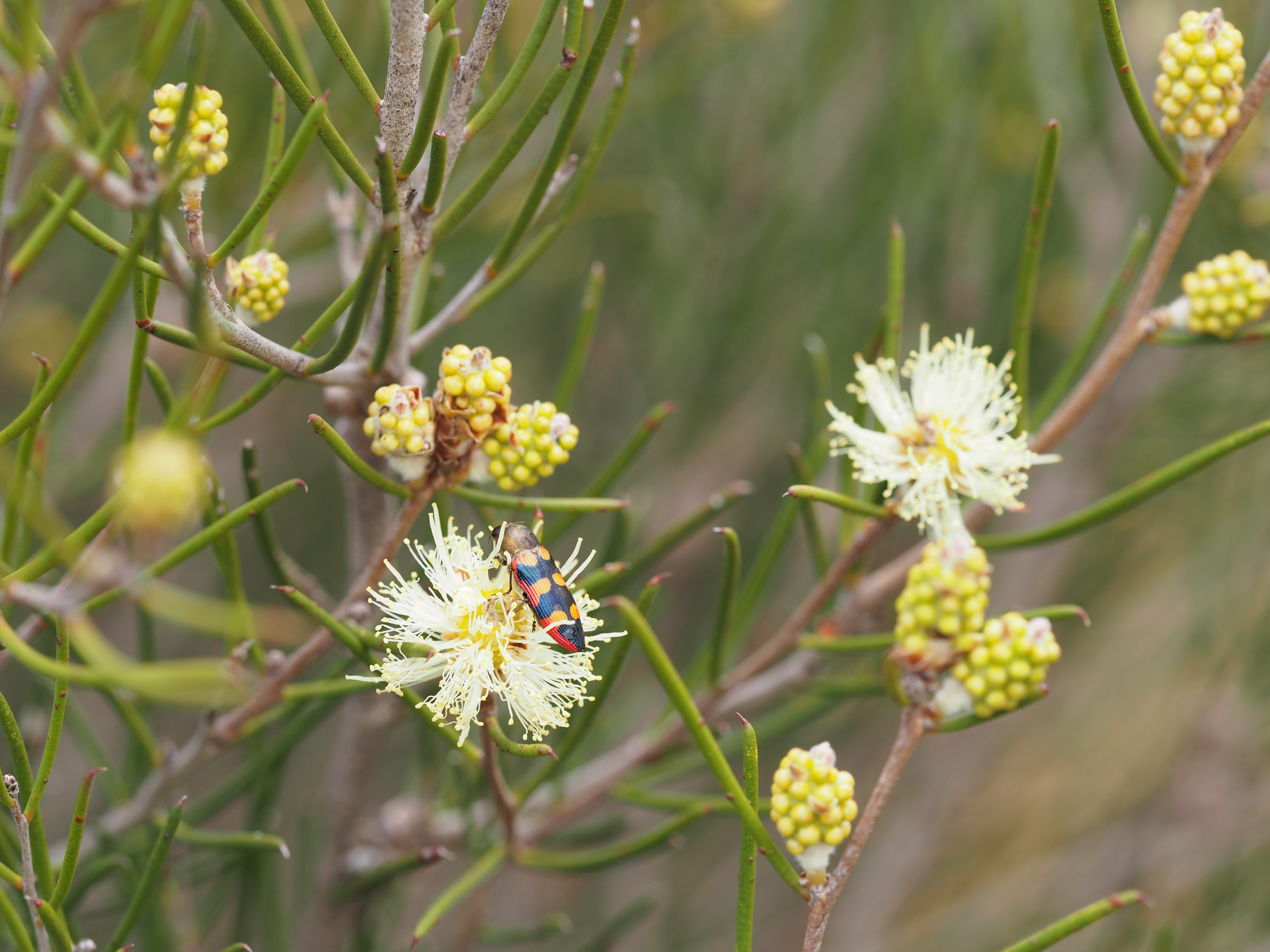 Melaleuca uncinata growing 90 km west of Esperance.